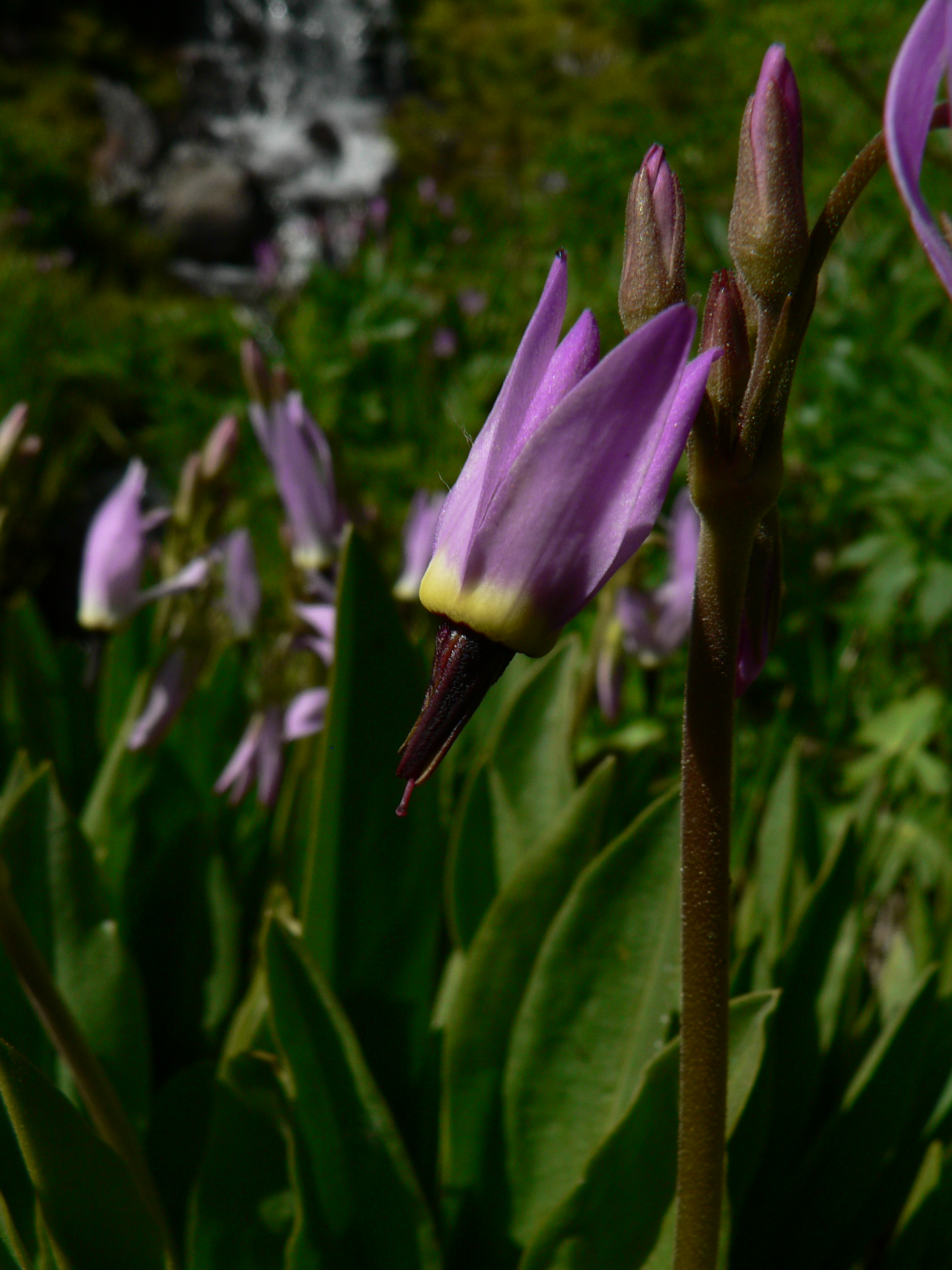 Sierrra Shooting Star, Tall Mountain Shooting Star, Jeffrey's Shooting Star